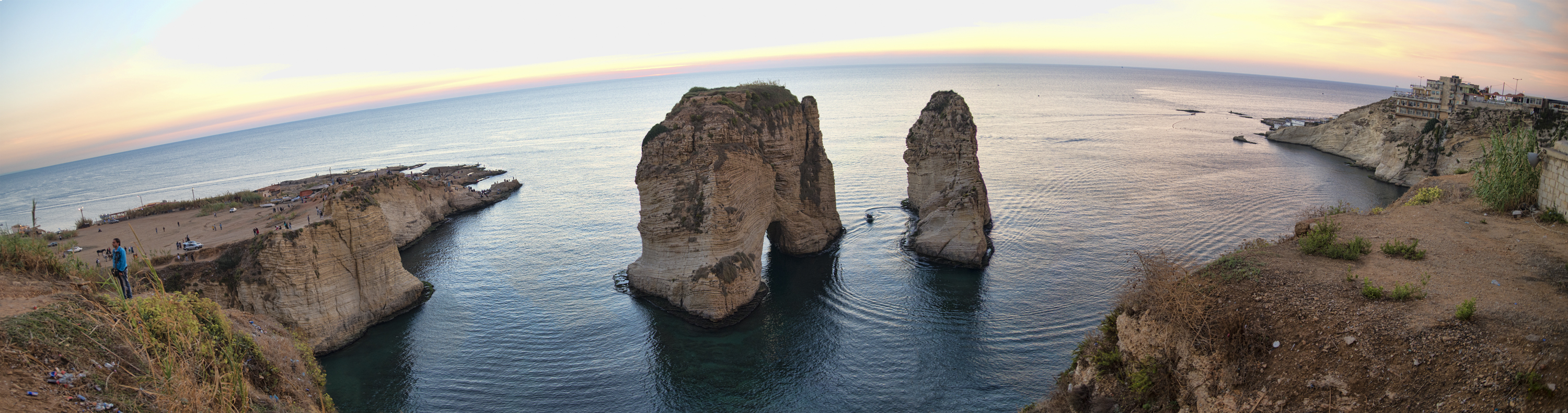 Photographed a panorama of the Rawshe rocks in Beirut, Lebanon. Using a Nikon D800. صخرة الروشة